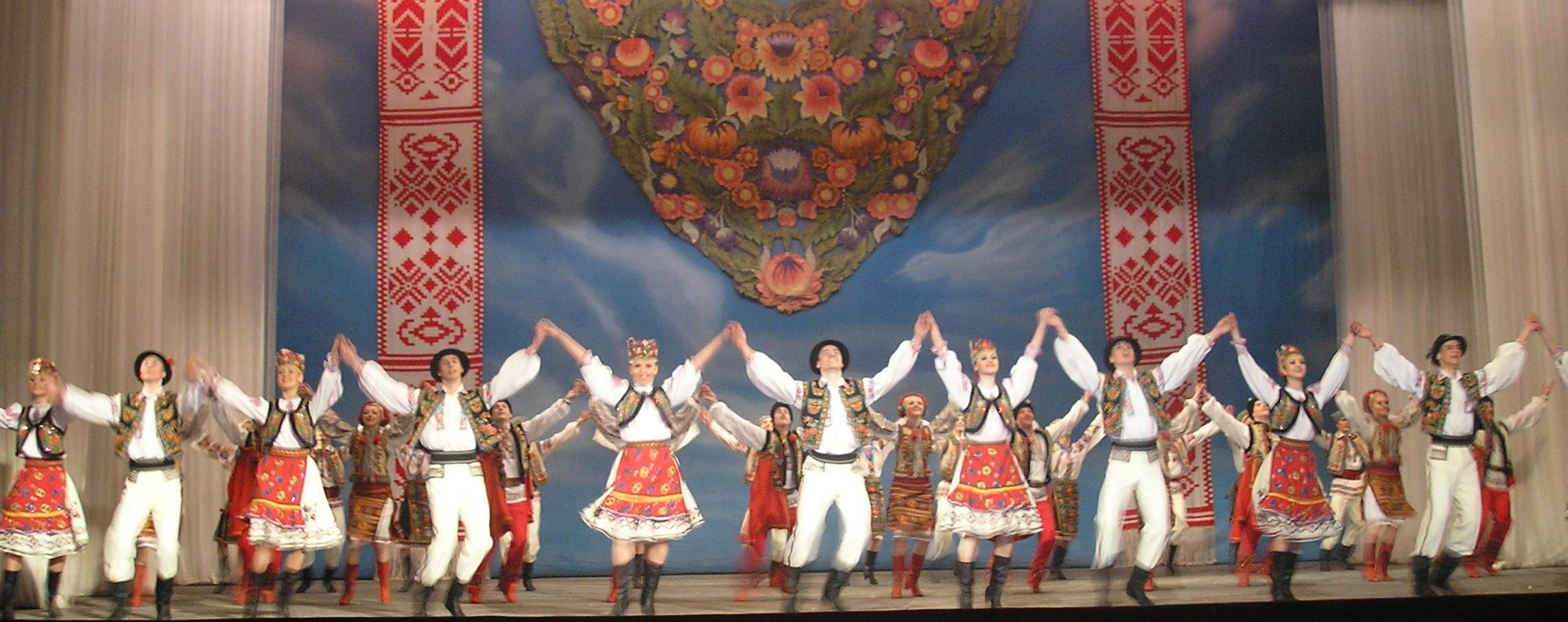 P. Virsky Ukrainian National Folk Dance Ensemble. Performens in Donetsk. April 30. 2006